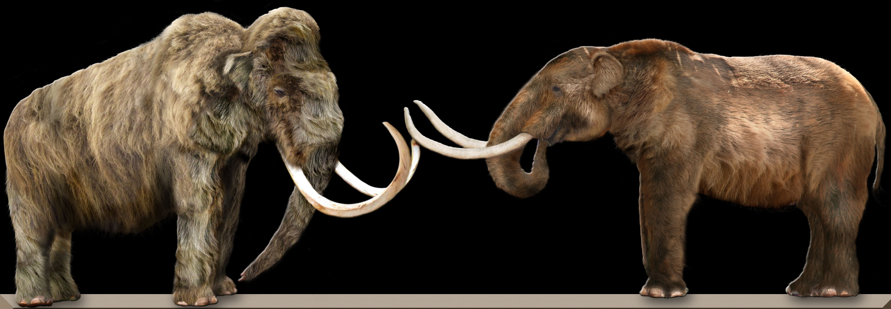 A Woolly mammoth (left) and an American mastodon (right) facing each other, showing the physical differences between the two animals.